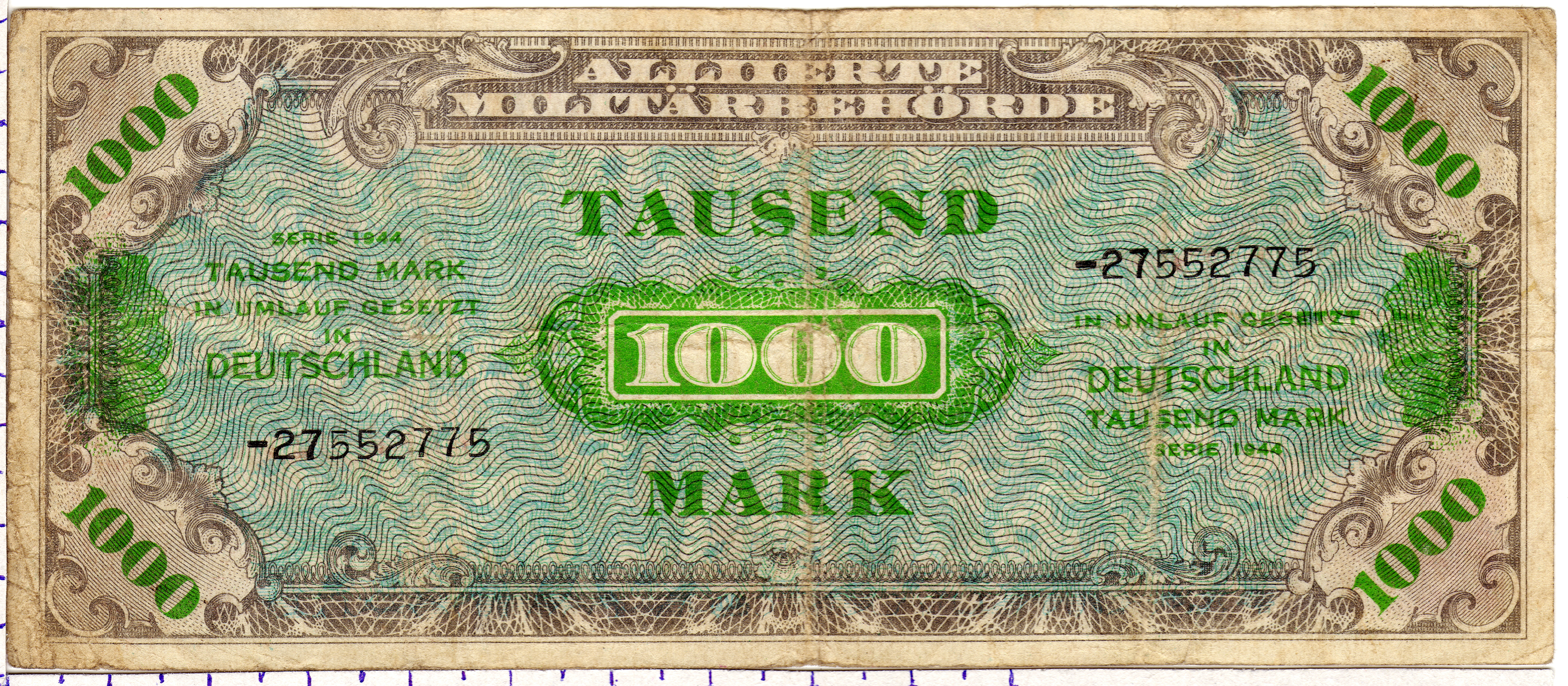 1000 Mark allied military currency, soviet issue